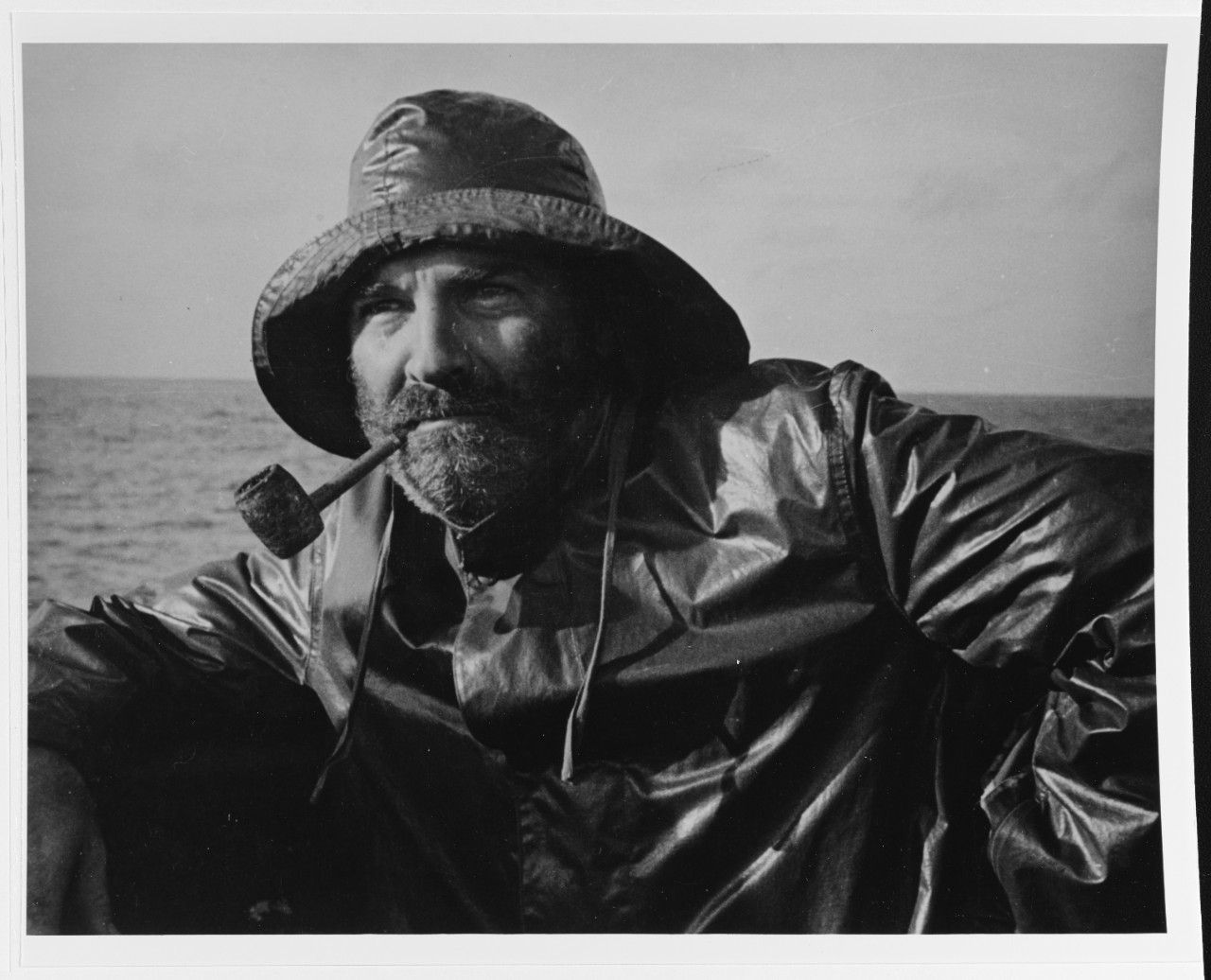 Burlingame commanded USS Silversides at the time this photo was taken.